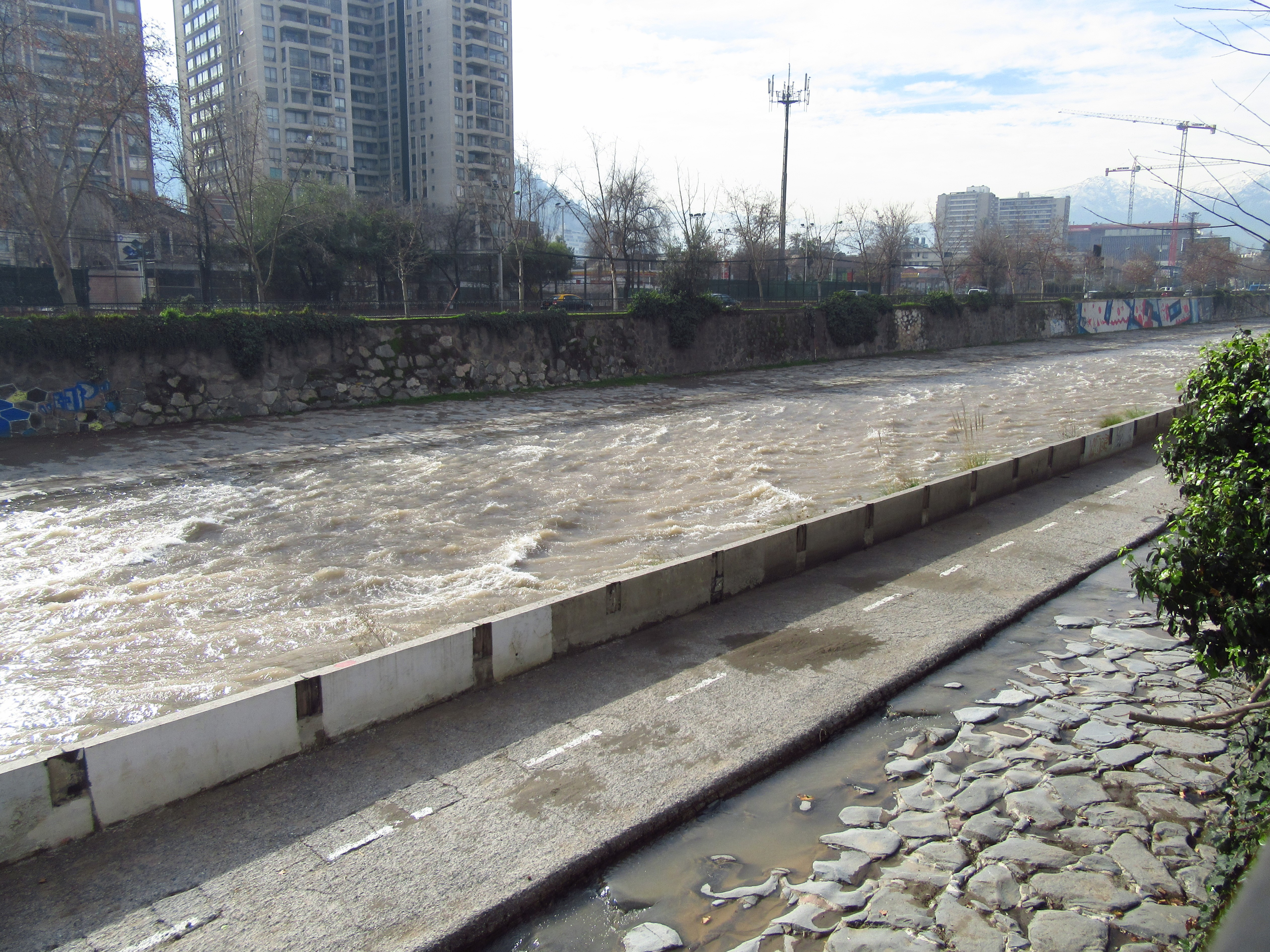 2017 in Santiago de Chile